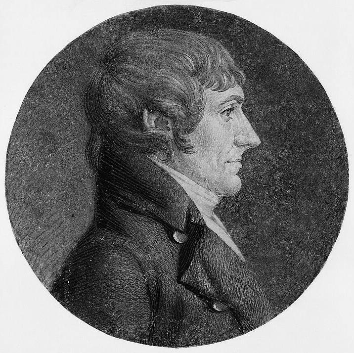 William Plumer, head-and-shoulders portrait, right profile